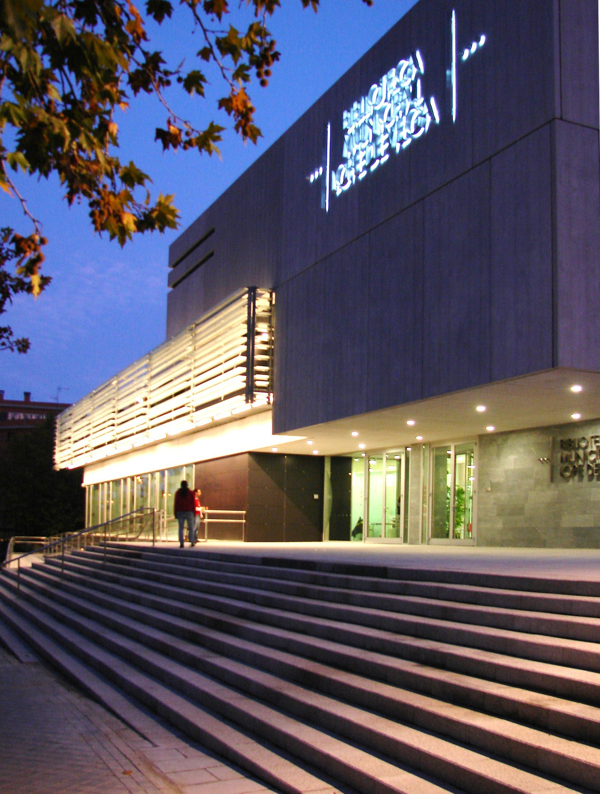 Biblioteca Municipal - Public Library - Lope de Vega (Tres Cantos) -Madrid